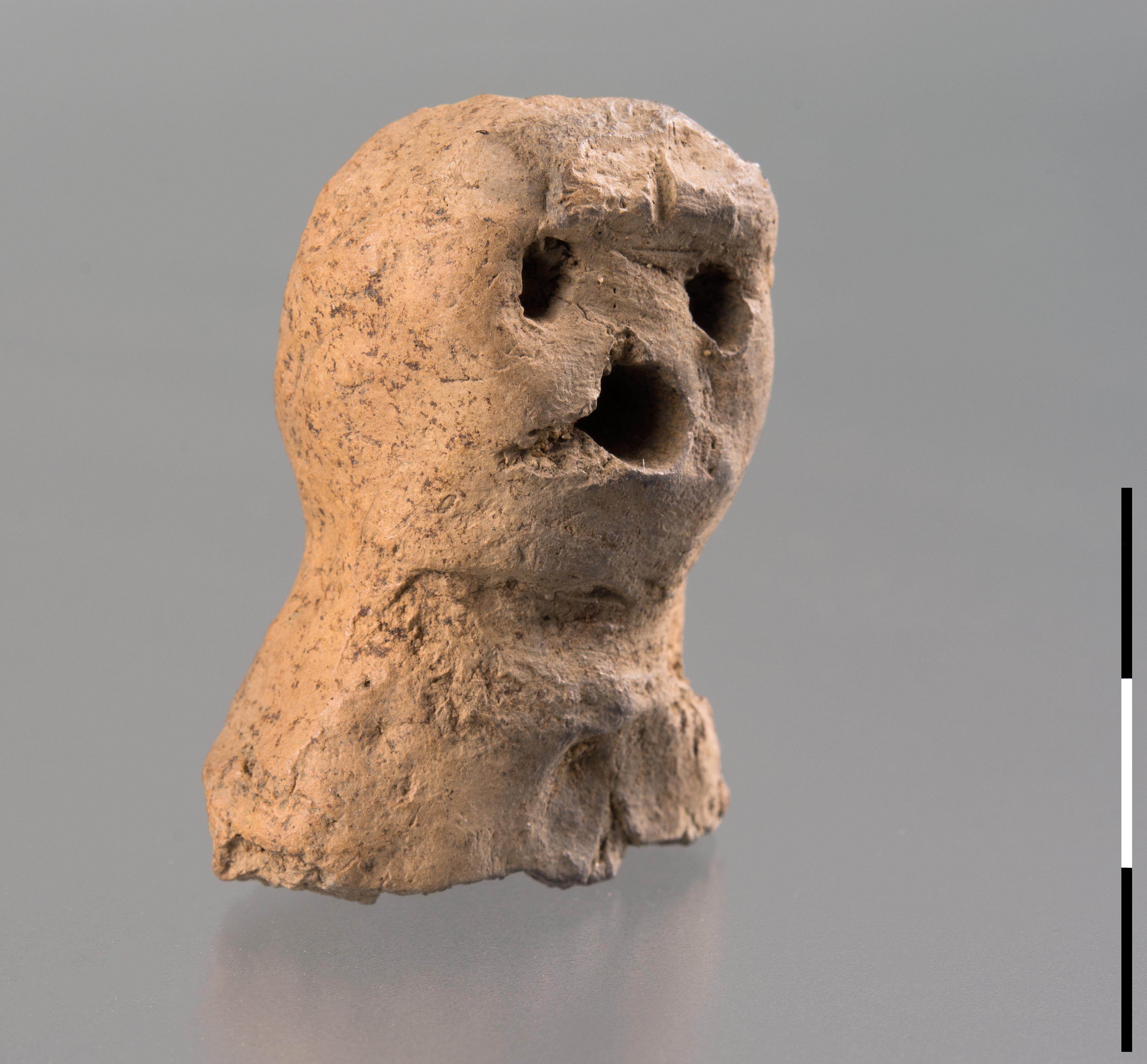 Bronze Age figurine made of clayPDB.2013.224.369